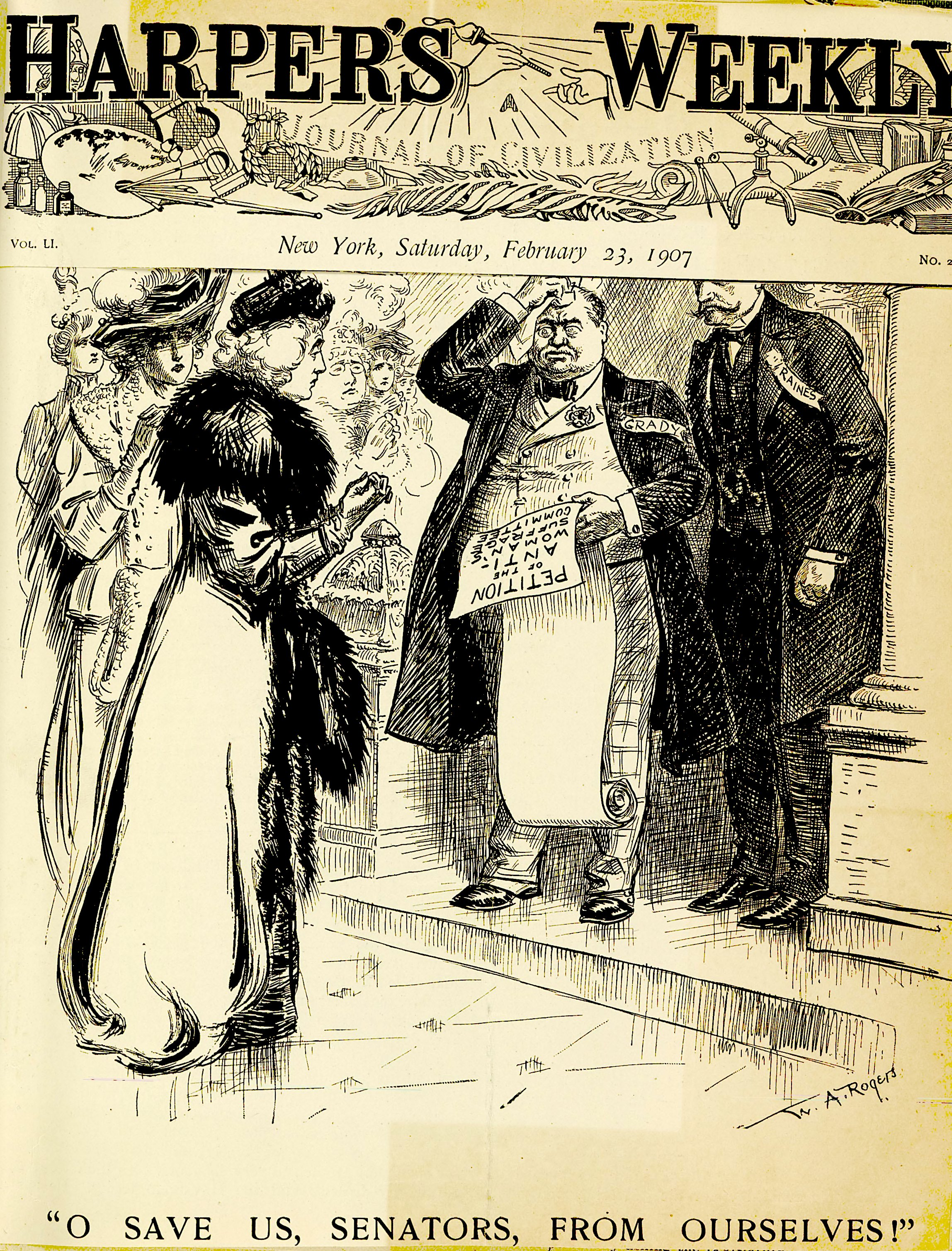 "O Save Us, Senators, From Ourselves!" (man labeled "Grady" scratching his head or wiping his brow as he receives a woman's anti-suffrage petition; cover of Harper's Weekly, Feb. 23rd 1907).